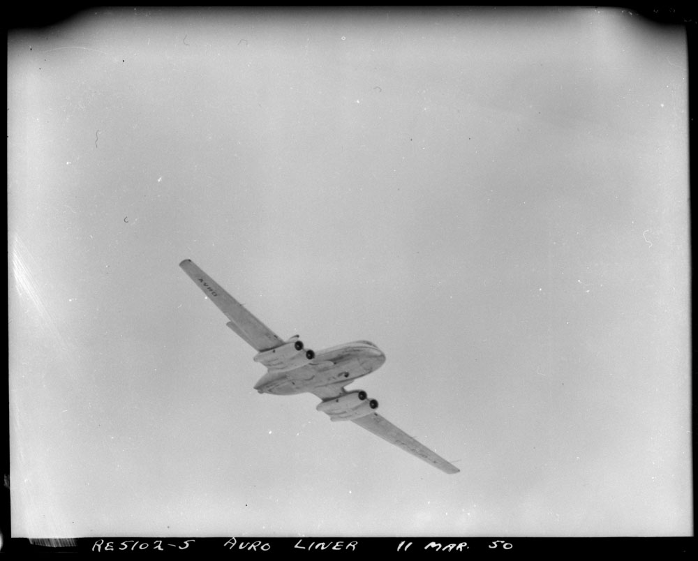 Avro Canada Jetliner in flight, 11 March 1950. MIKAN no. 3584355